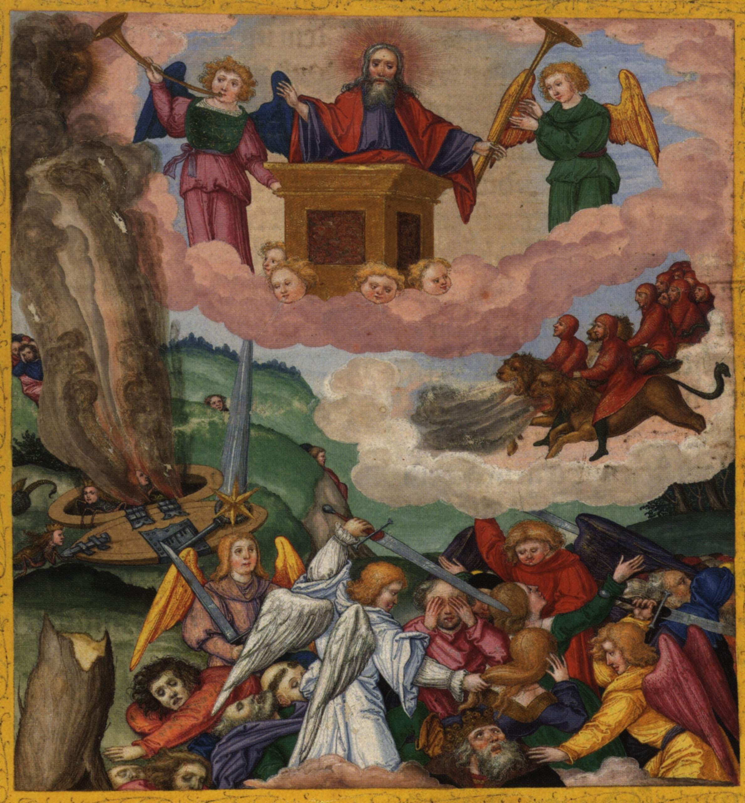 Page 292: The Fifth and Sixth Trumpets, Revelation 9:1-12